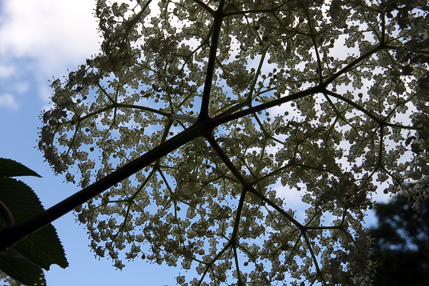 Self made by image of the underside of the inflorescences of Sambucus_canadensis, taken summer of 2008, in Minnesota.